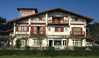 Villa Mendichka - Urrugne